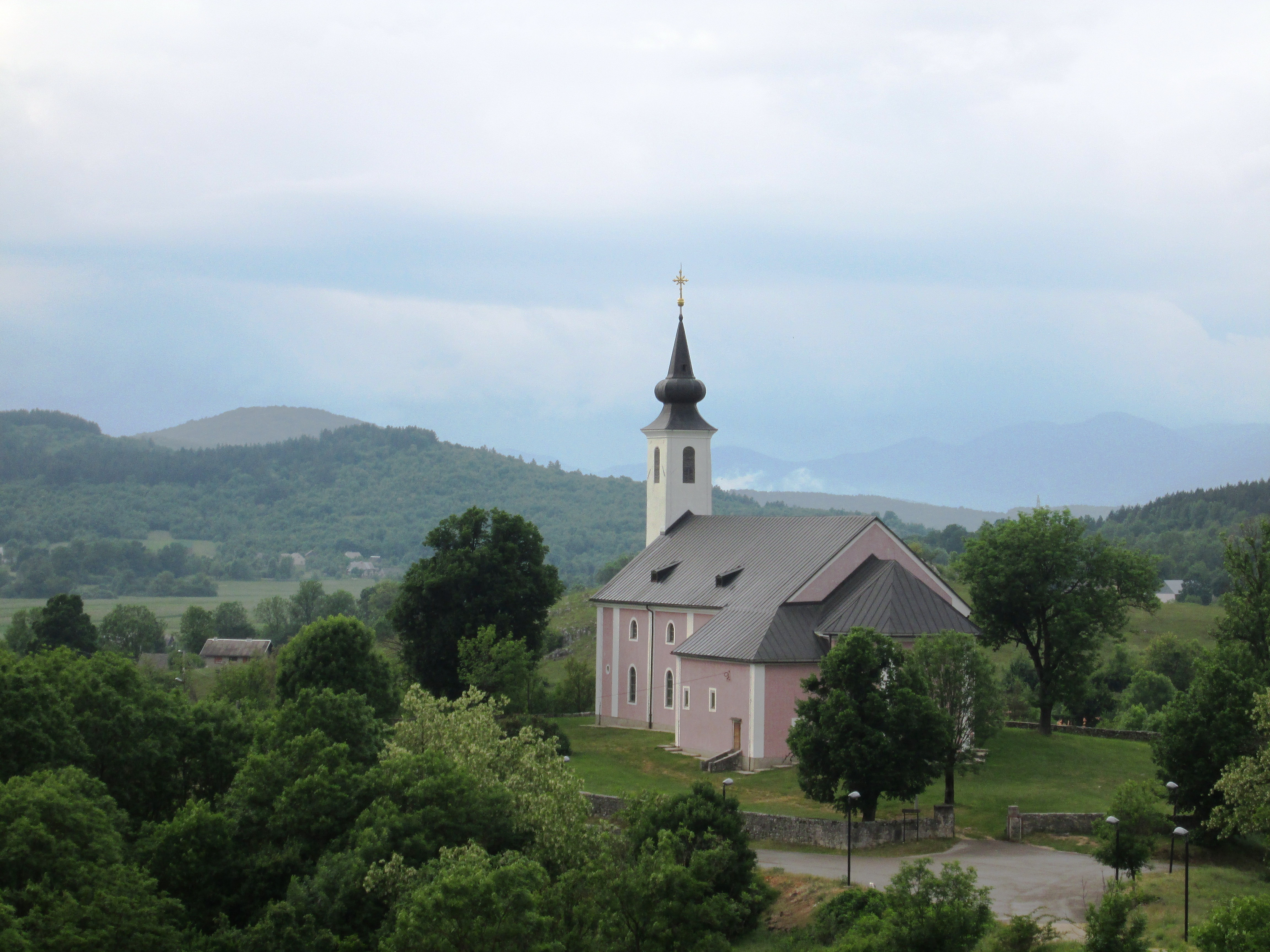 Church of Holy Cross, Perusic, Croatia